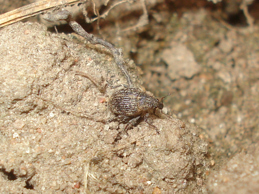 Gymnetron tetrum